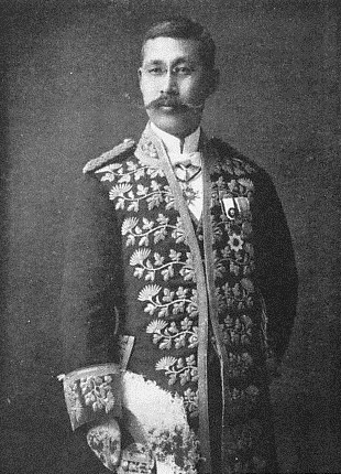 Kingoro Kawamura